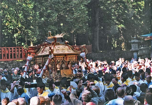 Mikoshi at autumn festival (matsuri), Toshogu, Nikko, Tochigi Prefecture, Japan, a UNESCO World Heritage Site. I took the photo and contribute it to the public domain. However, people and institutions may retain rights to images in it.